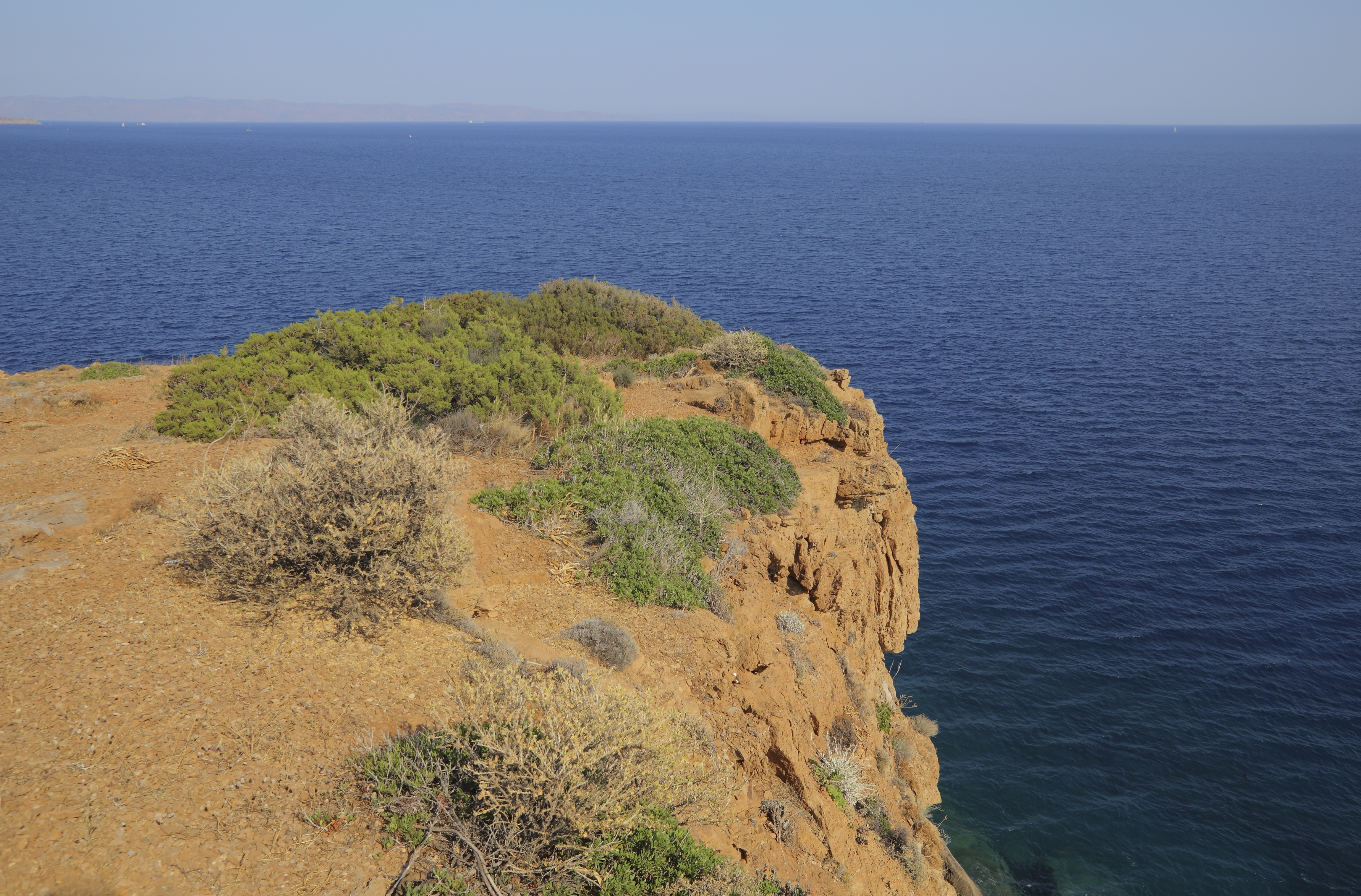 Cape Sounion (Attica, Greece)